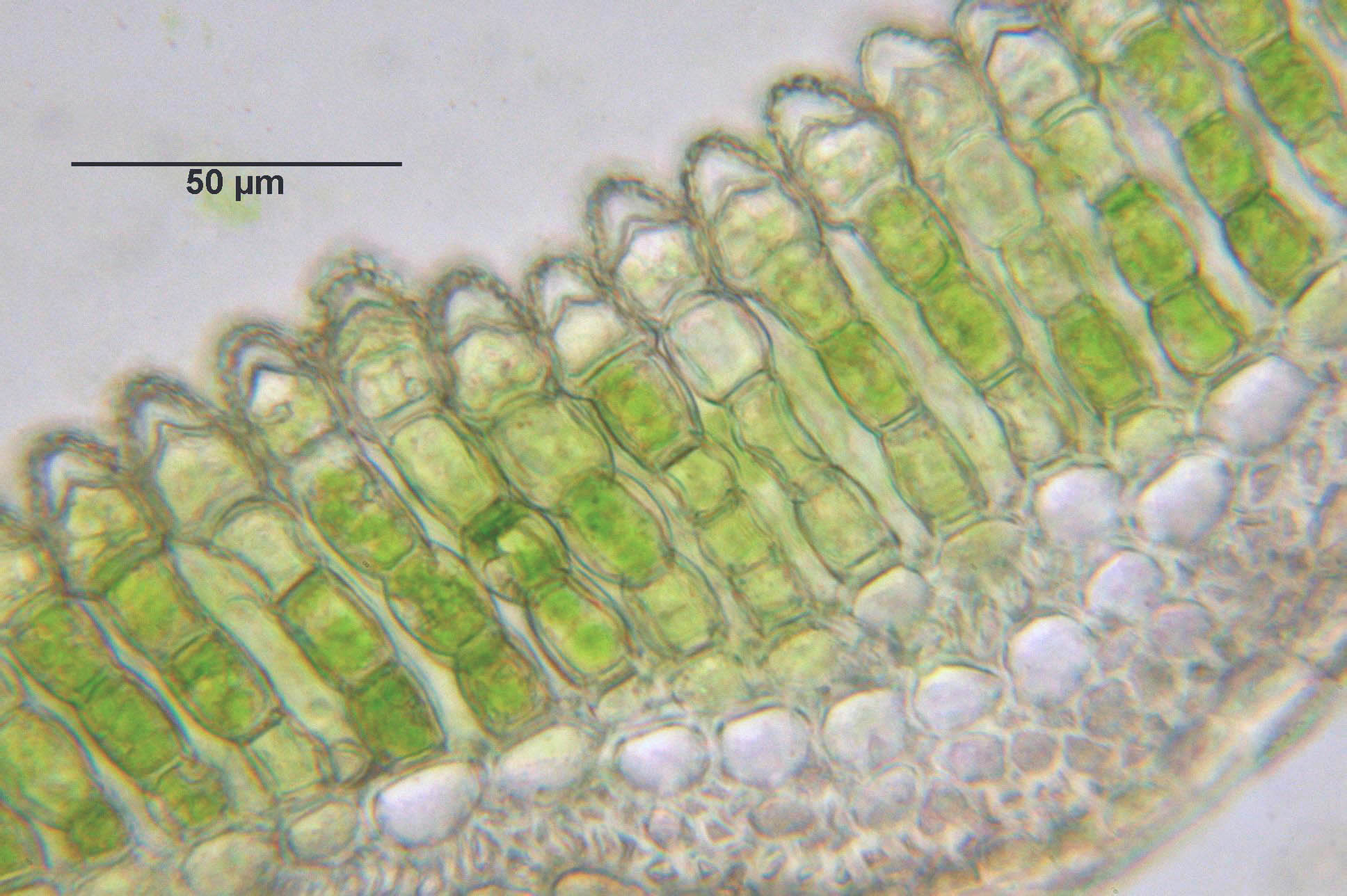 Polytrichum alpinum